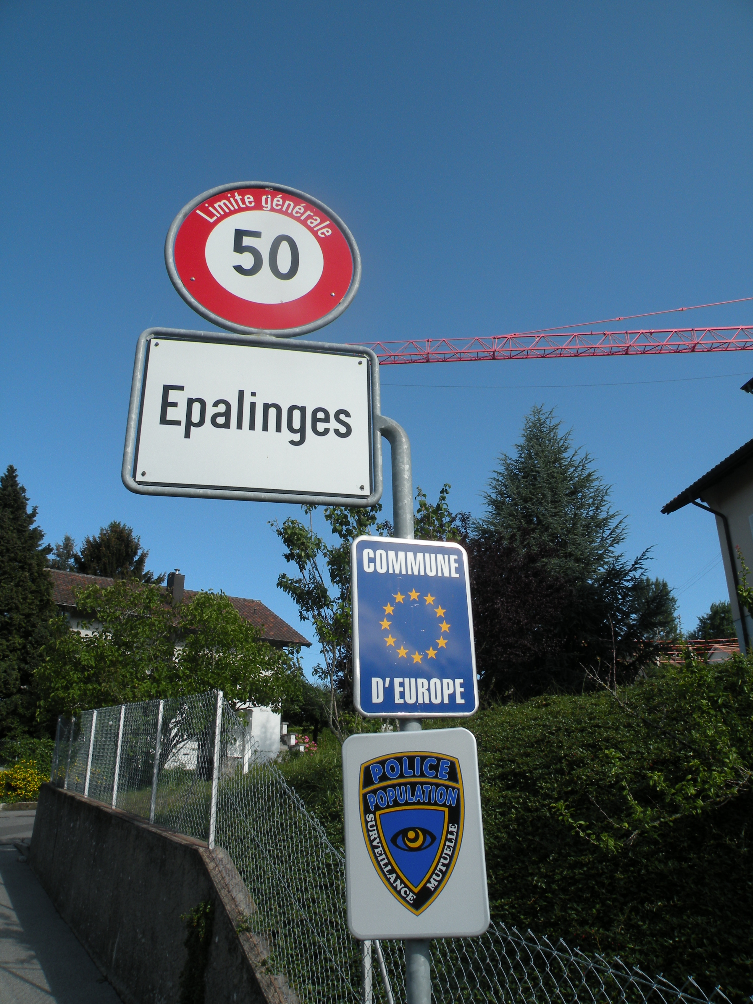 Sign at the entrance to Epalinges